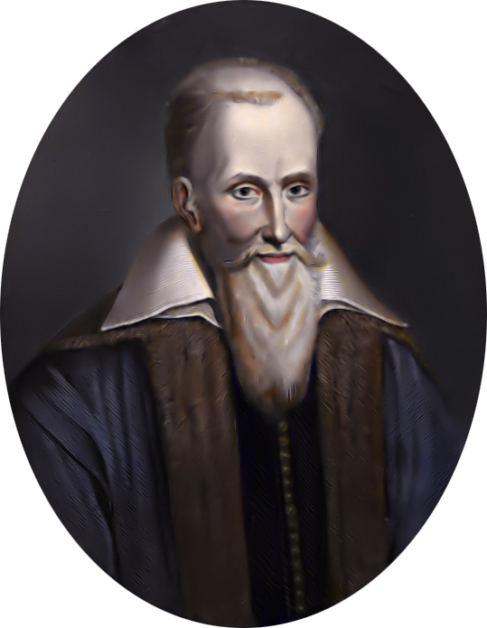 Joseph Scaliger, from a print engraved by Edelink